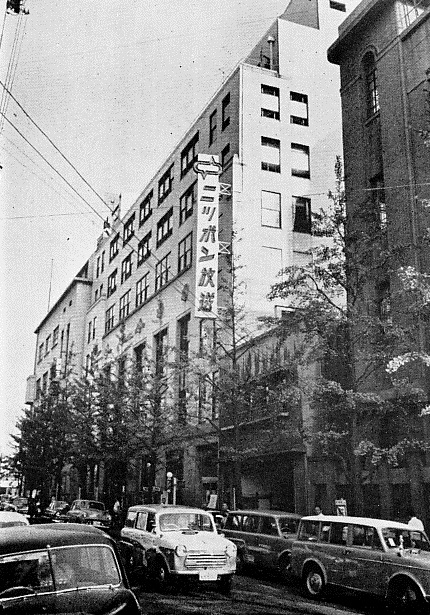 Nippon Broadcasting System Building circa 1960